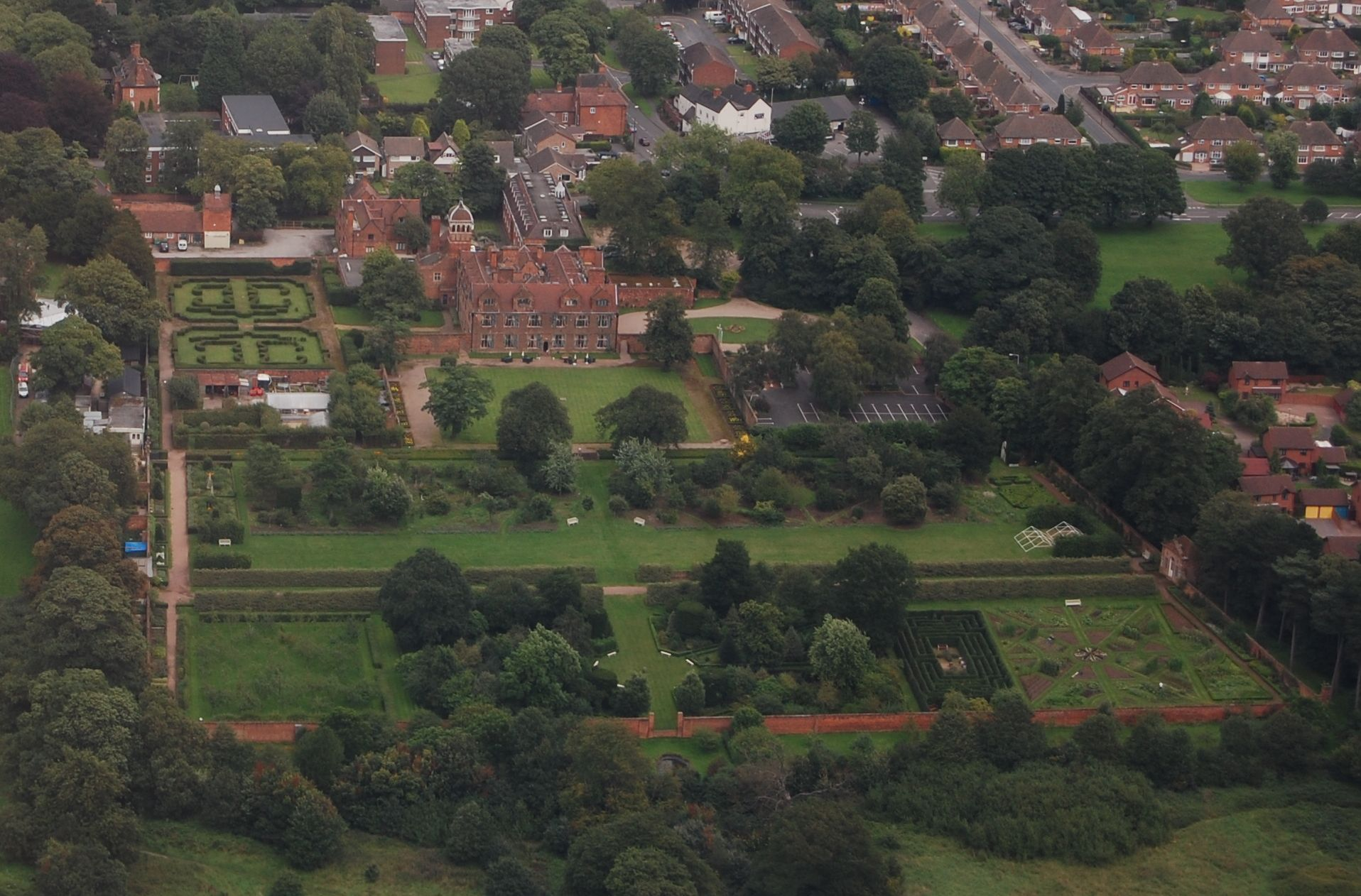 Castle Bromwich Hall and Gardens, Castle Bromwich, England, from the air. Used here